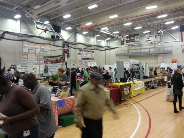 BVFF Exhibit Area